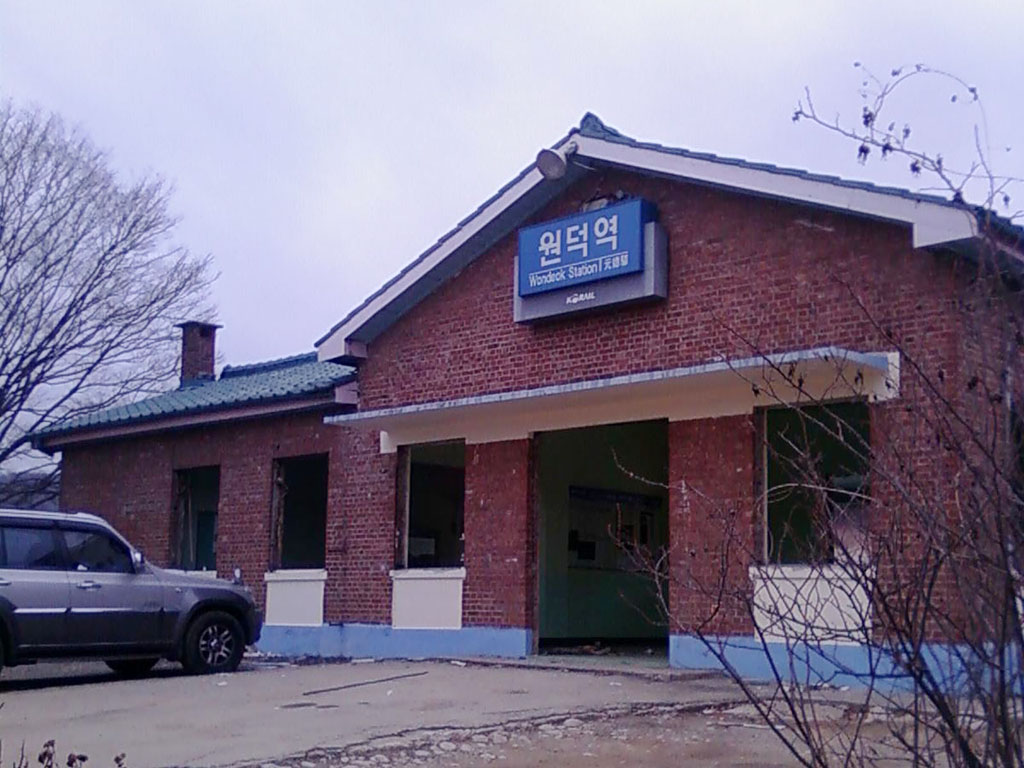 Old Wondeok Station